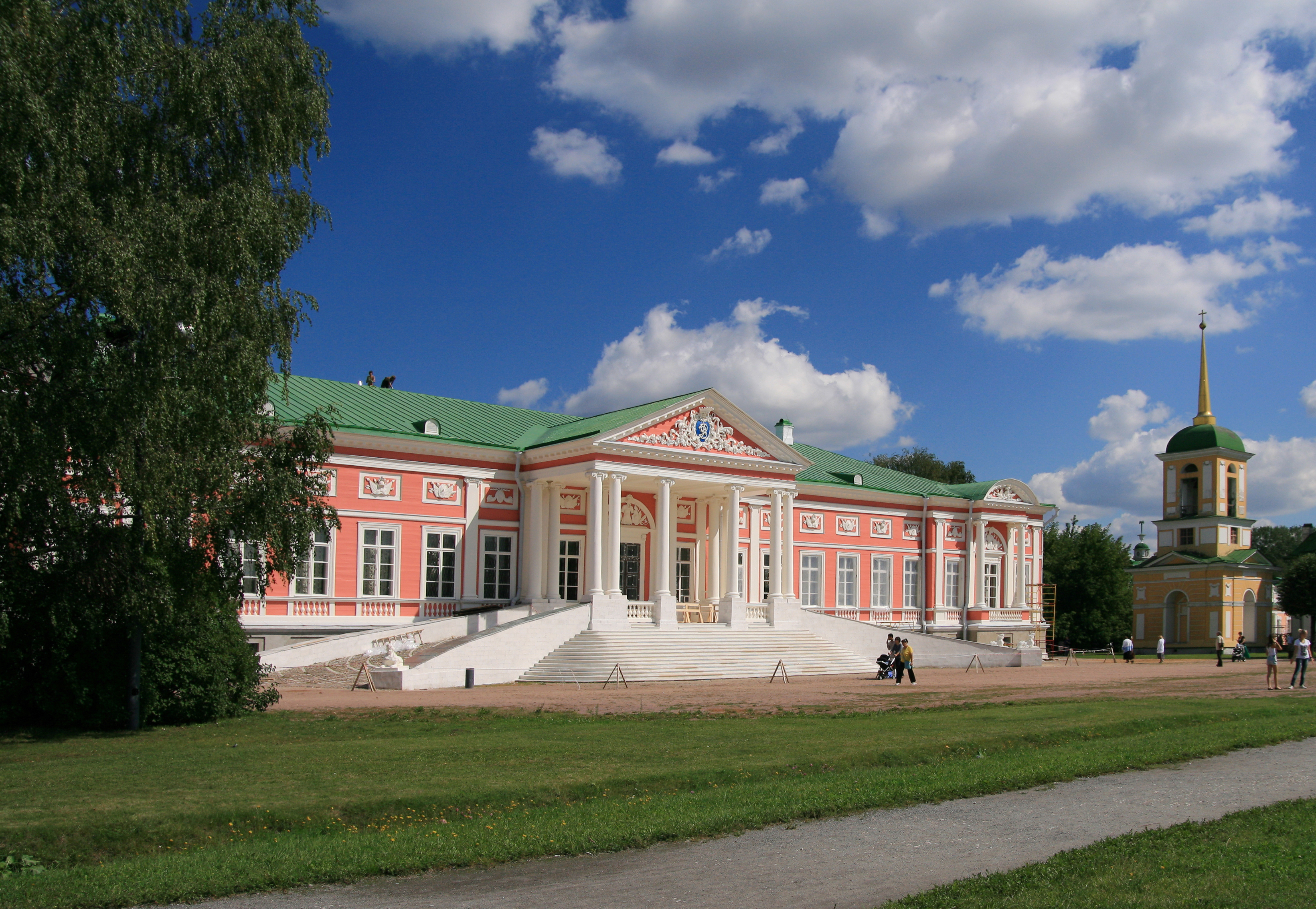 The Palace in Kuskovo Estate, 1769-1775, Moscow